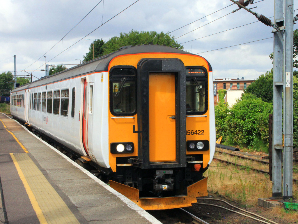 Recently repainted in Great Anglia livery, 156422 arrives at Ipswich with an East Suffolk Line service from Lowestoft in July 2013.